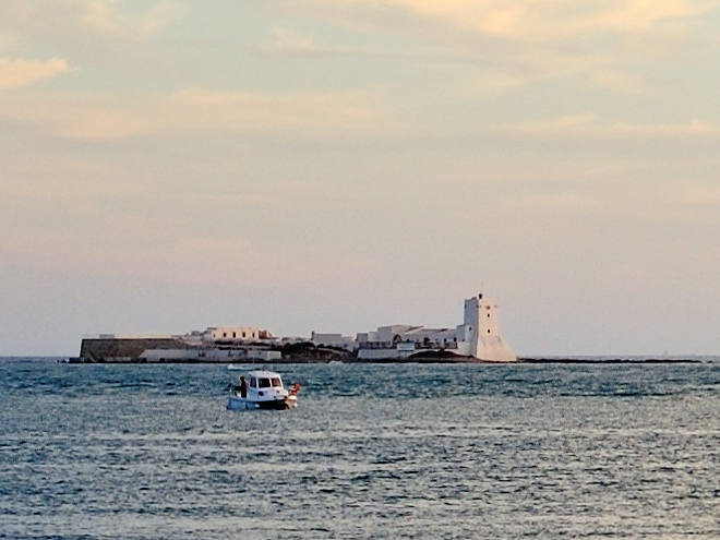 Castle of Sancti Petri, sight from Chiclana de la Frontera.